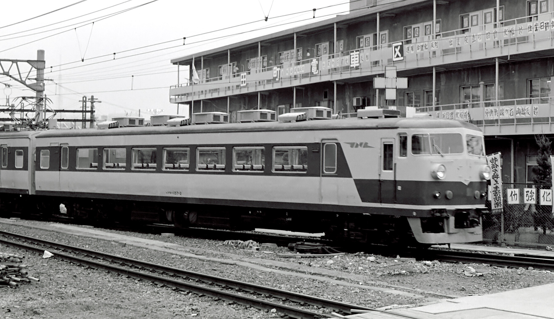 Japanese National Railways 157 series EMU car KuMoHa 157-2 at Shinagawa Station in Tokyo, Japan